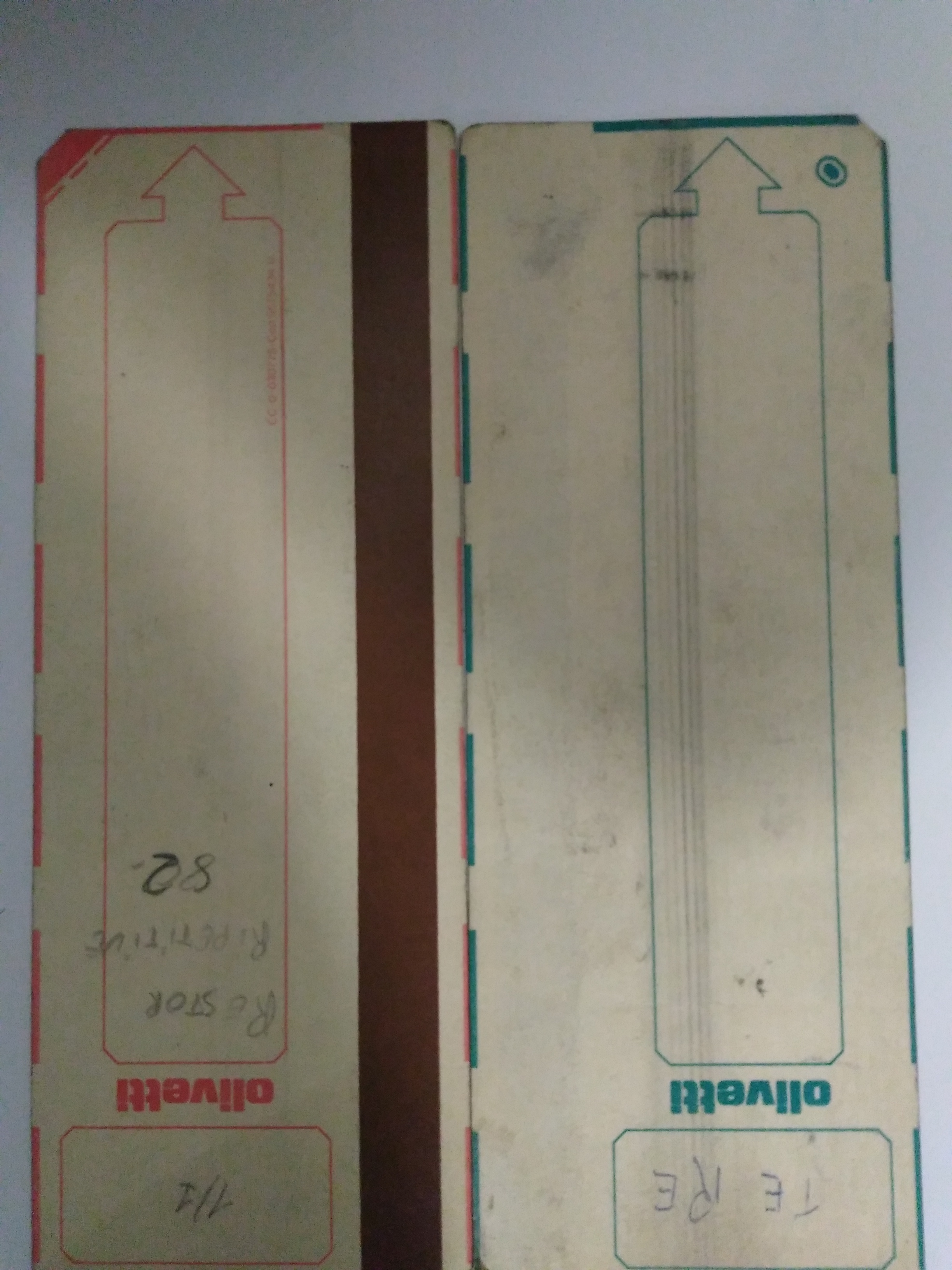 Olivetti Audit 5 magnetic card